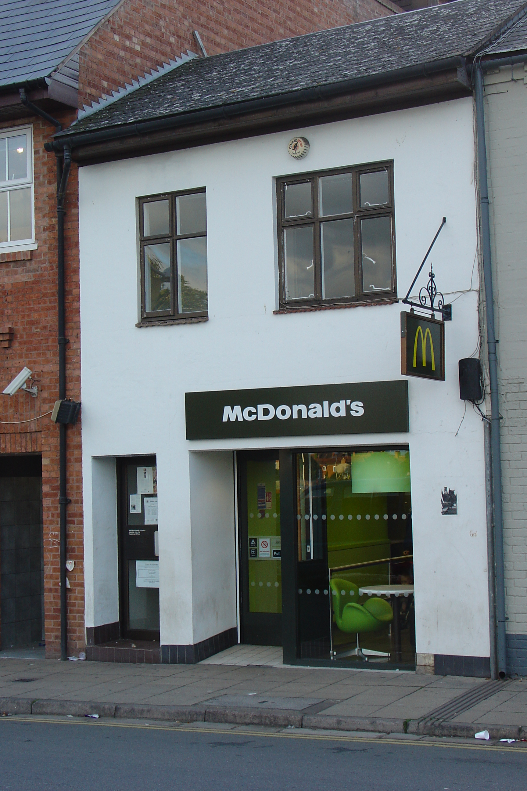 The McDonalds fast-food outlet located at Stratford-upon-Avon